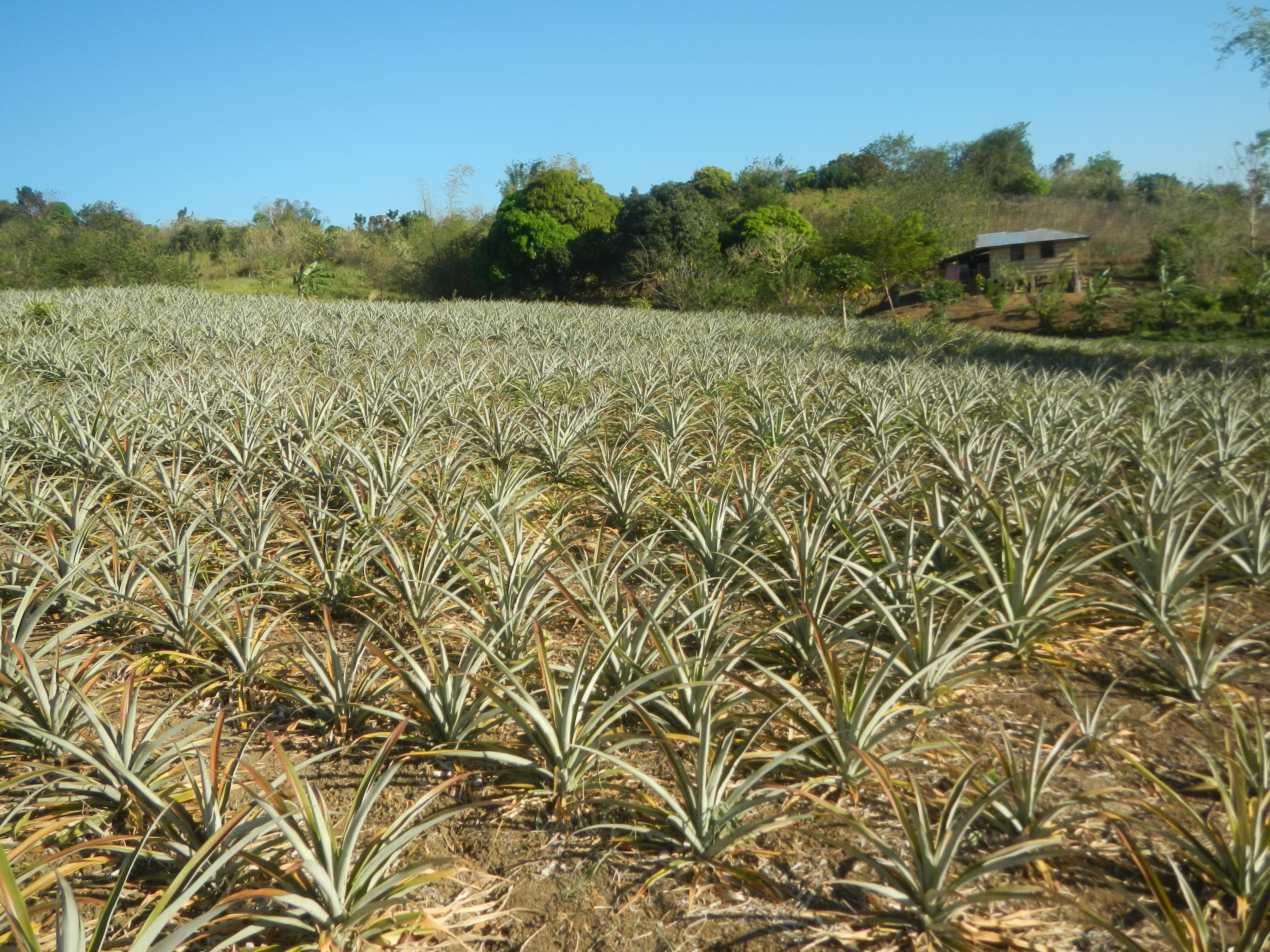 Pineapple fields Mountains, hills, trees and fields (Talbak, Doña Remedios Trinidad, Bulacan Municipal Road) Talbak, Doña Remedios Trinidad Elementary School in Centro villages, or Barangay Proper, beside the Hall, Chapel, Offices surrounded by Forests, hills and mountains, grasslands Hawaiian Pineapple Ananas comosus from Silang, Cavite Barangay Talbak 15°5'33"N 121°5'34"E Doña Remedios Trinidad, Bulacan (accessed from San Ildefonso-Doña Remedios Trinidad, Bulacan Road (Poblacion, Sapang Putol, Pinaod, Pala-Pala, Gabihan, Alagao and Akle, San Ildefonso, Bulacan section) from and along Cagayan Valley Road Pan-Philippine Highway, also known as the Maharlika "Nobility/freeman" Highway (Note: Judge Florentino Floro, the owner, to repeat, Donor Florentino Floro of all these photos hereby donate gratuitously, freely and unconditionally all these photos to and for Wikimedia Commons, exclusively, for public use of the public domain, and again without any condition whatsoever).